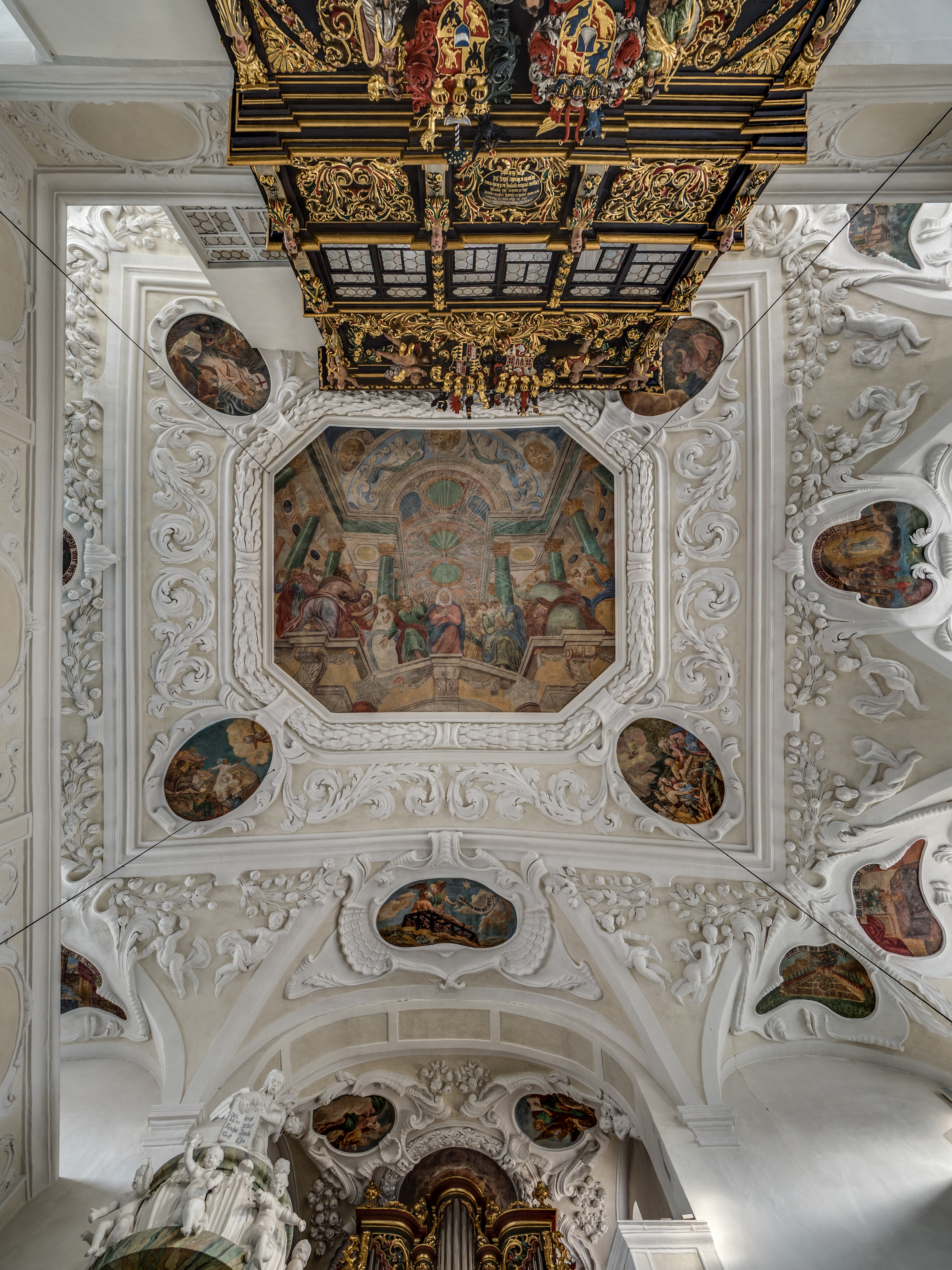 View towards the ceiling of the Protestant Church St.Laurentius in Thurnau